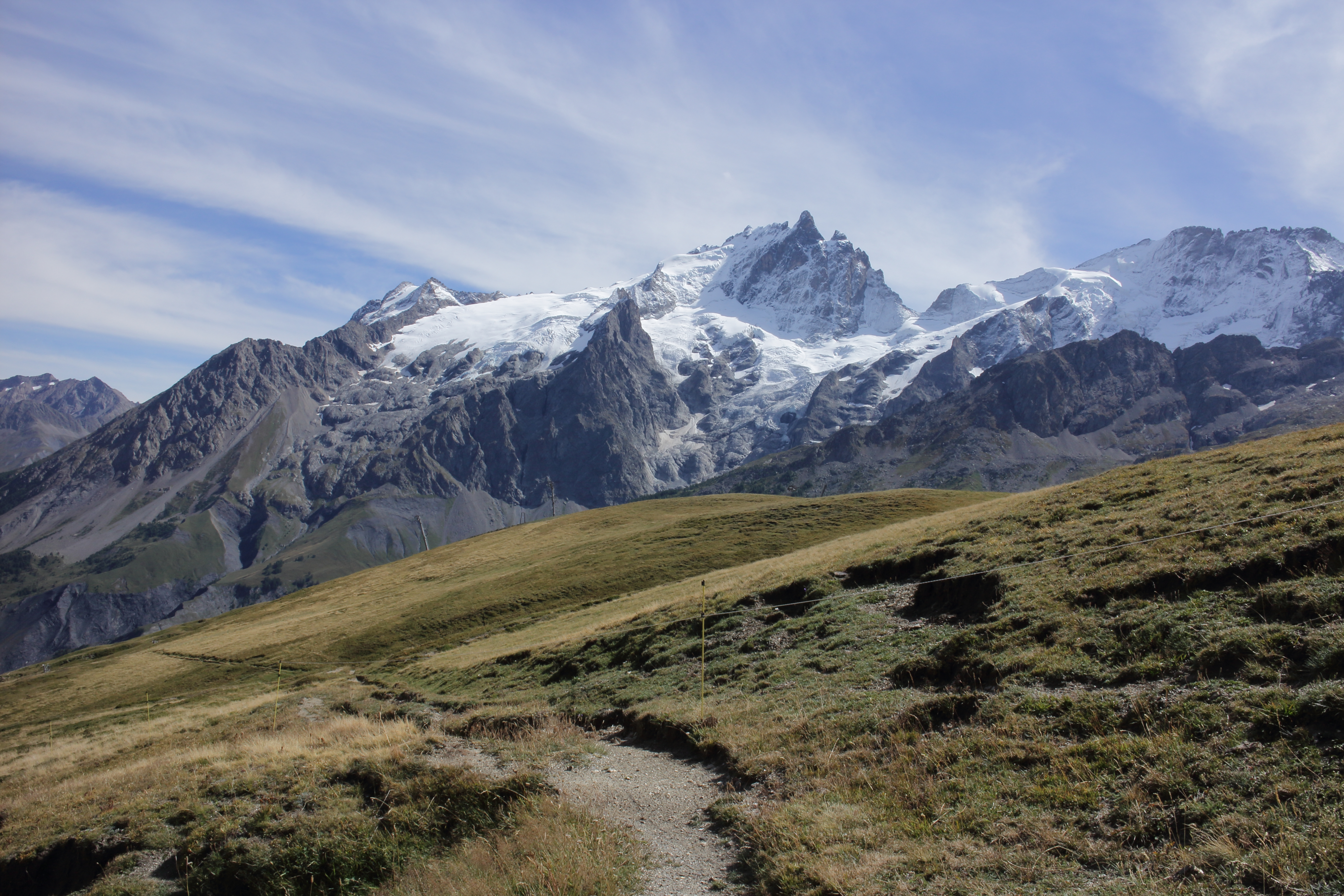 Plateau d'emparis. View Massif de la Meije.